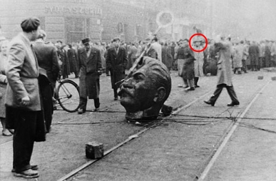 Historic photograph, 1956 Hungarian Revolution against Soviet occupation, Gabor B. Racz circled in red. Racz was twenty-one years old in his first years of medical school when he was forced to flee his home in Budapest to escape persecution. He eventually moved to the United States, and became a world renowned physician and innovator of procedures and medical devices in the field of interventional pain management.